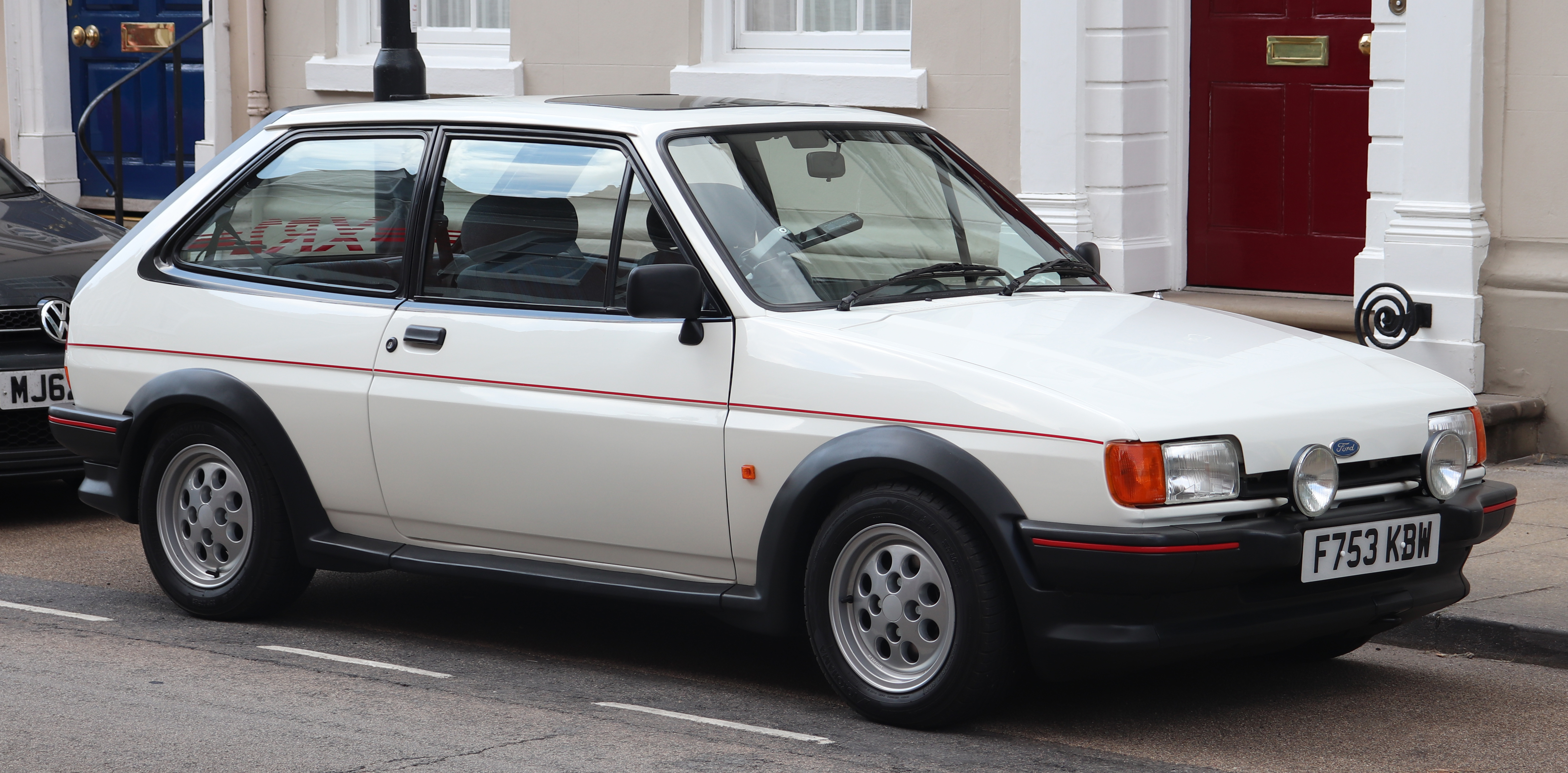 1989 Ford Fiesta XR2 1.6 Front Taken in Warwick